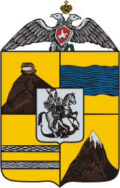 Coat of arms of Georgia-Imeretia Governorate, Russian Empire